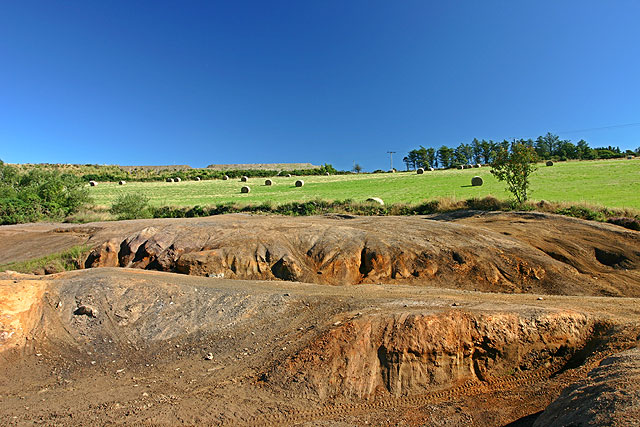 Foxdale Deads. The toxic remnants of the mine spoil heaps are used for motorcycle practice, being conveniently sited by the main road through Foxdale.